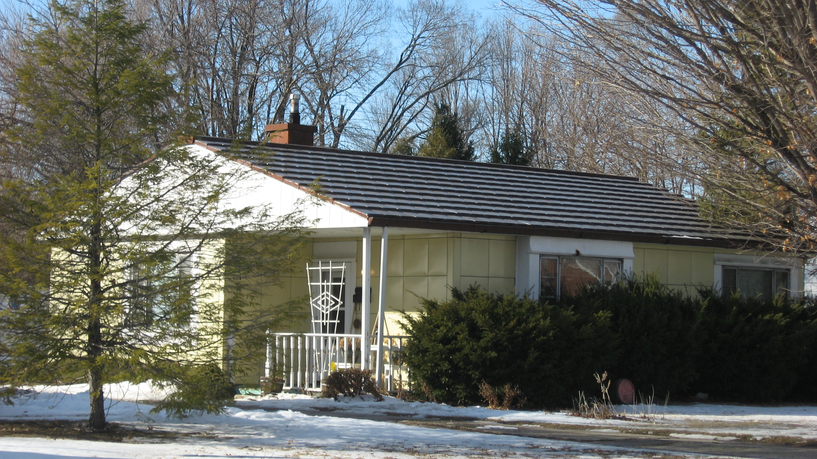 Front of the Roy and Iris Corbin Lustron House, located at 1728 N. Leland Avenue in Indianapolis, Indiana, United States. Built in 1949, it is listed on the National Register of Historic Places.